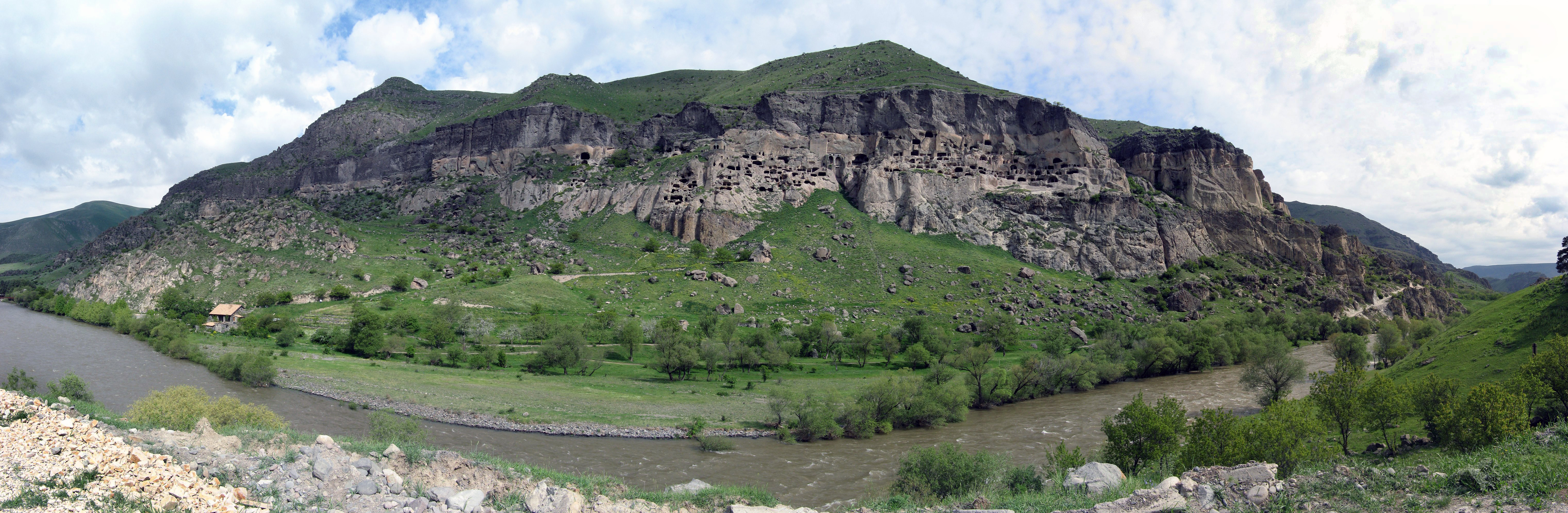 Vardzia